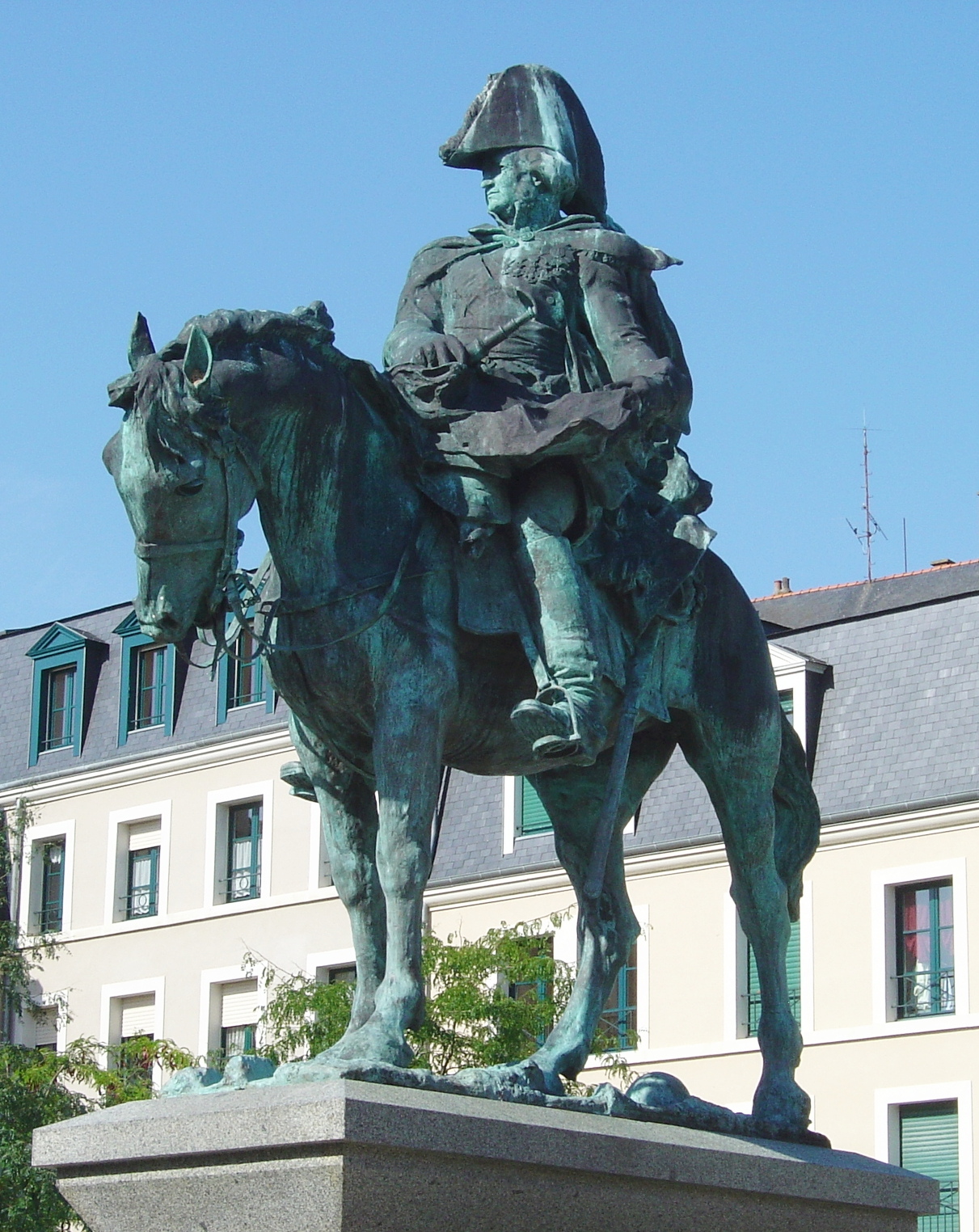 Statue of General Lariboisière, in Fougères (France), sculpted by Georges Récipon.